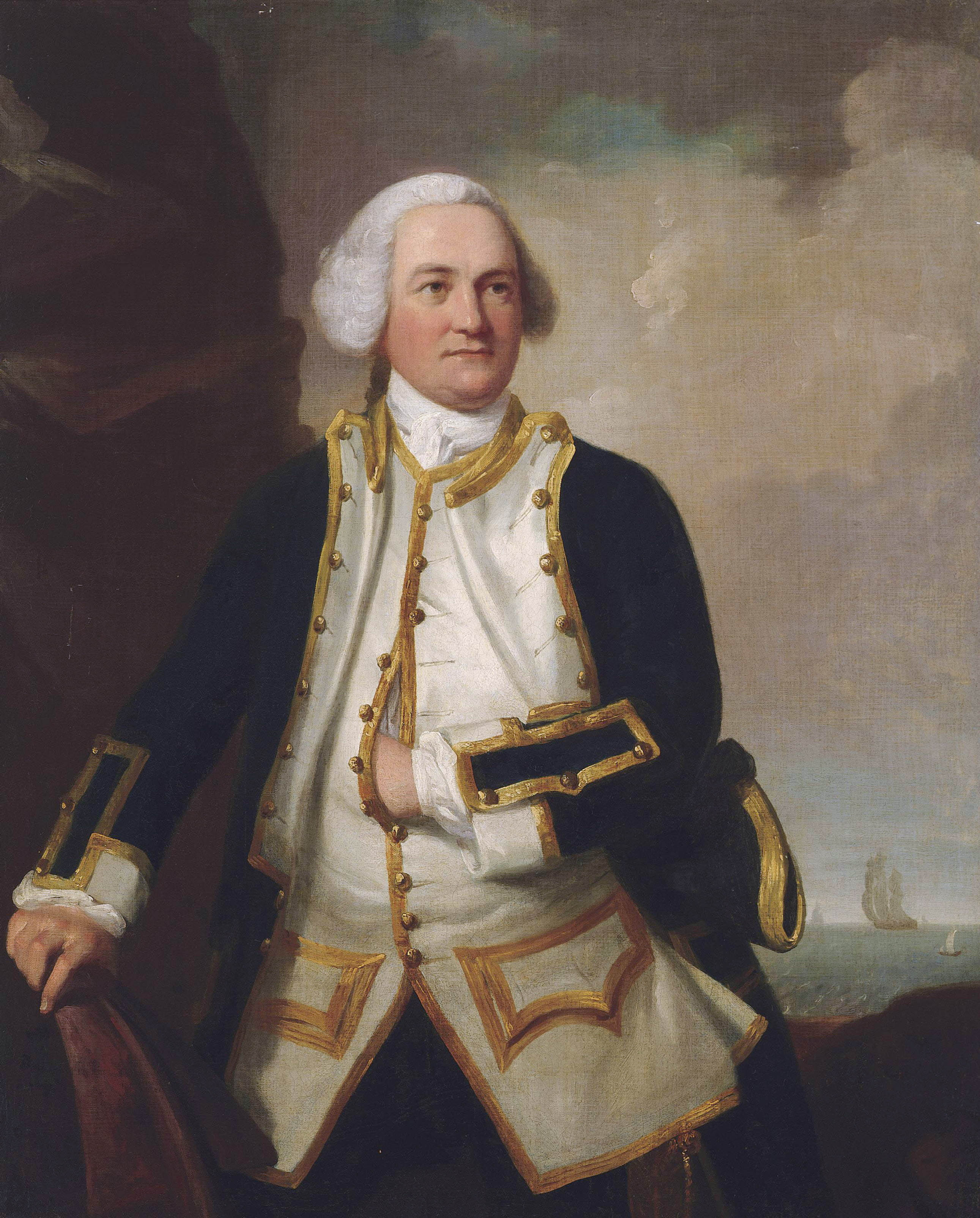 Samuel Graves (1713-1787) oil on canvas 125.8 x 101 cm